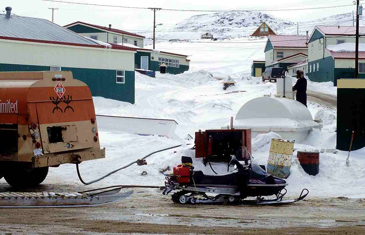 gas station in Cape Dorset, Nunavut, Canada